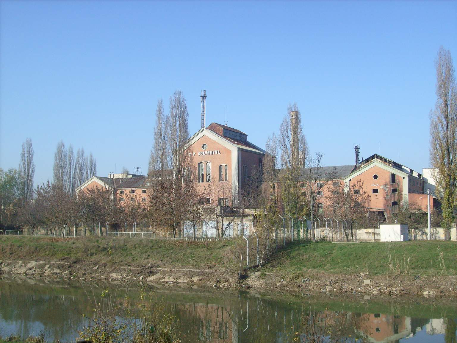 Solventul